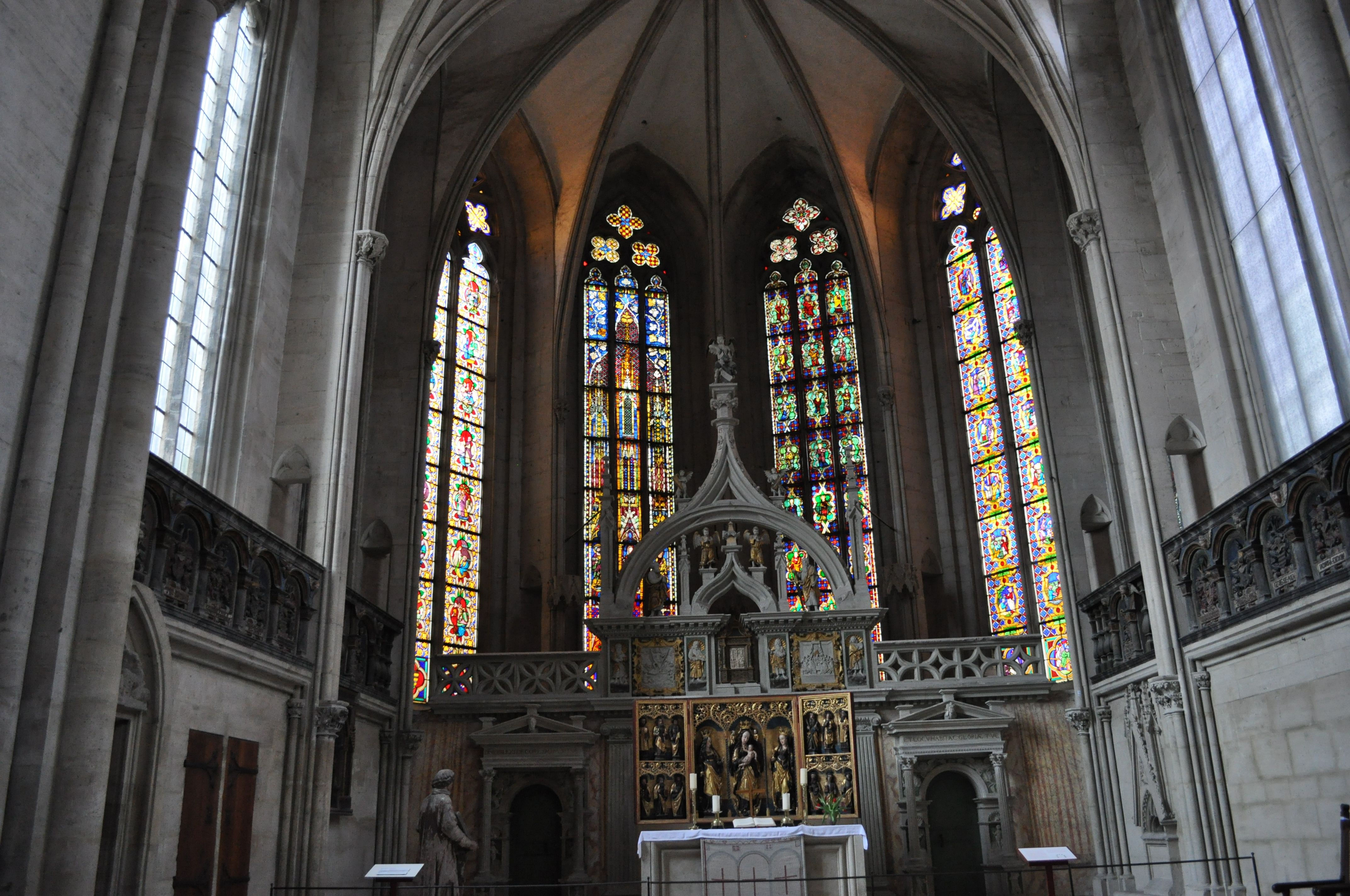 East Choir of the Naumburg Cathedral